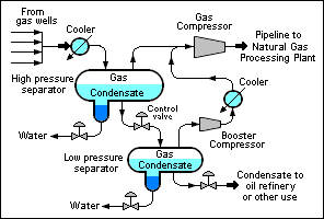 I drew this flow diagram myself, using Microsoft's Paint program, and uploaded it into the English Wikipedia a day or so ago. I am now uploading it into Commons. - Mbeychok 23:45, 18 January 2007 (UTC)